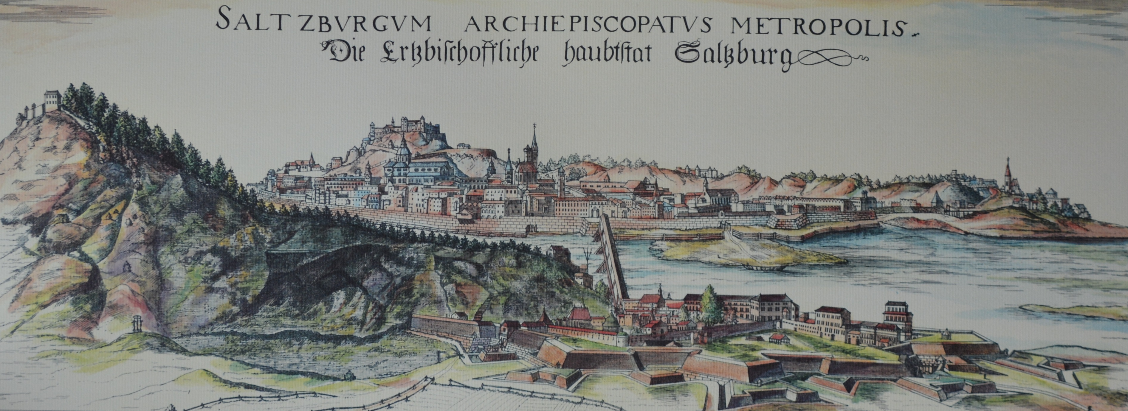 Salzburg 1643, by Philipp Harpff